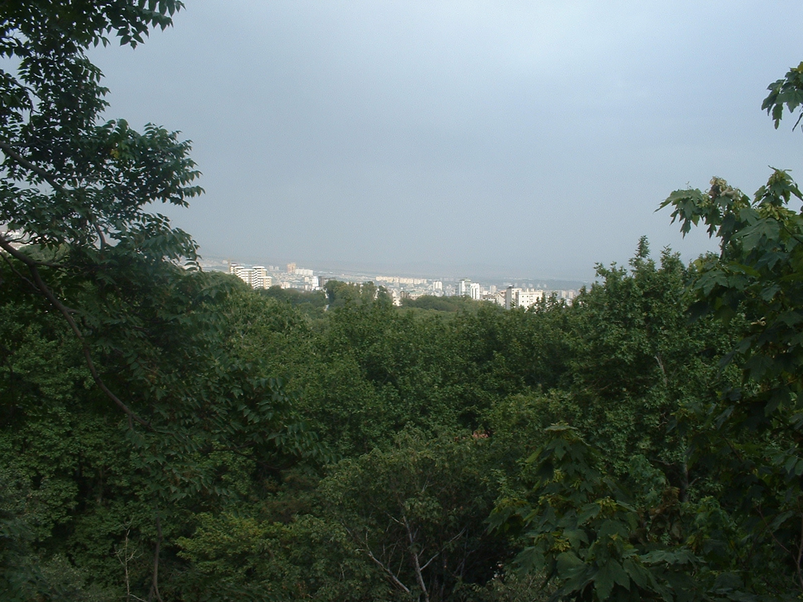 View of Tehran from Sa'dabad Palace compound.